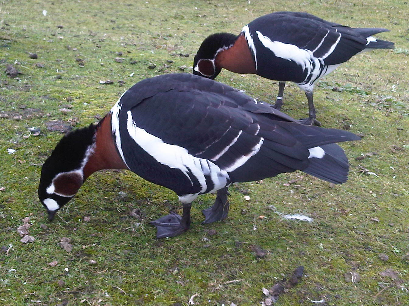 Red-breasted Geese (Branta ruficollis) at WWT London Wetland Centre in London, England.